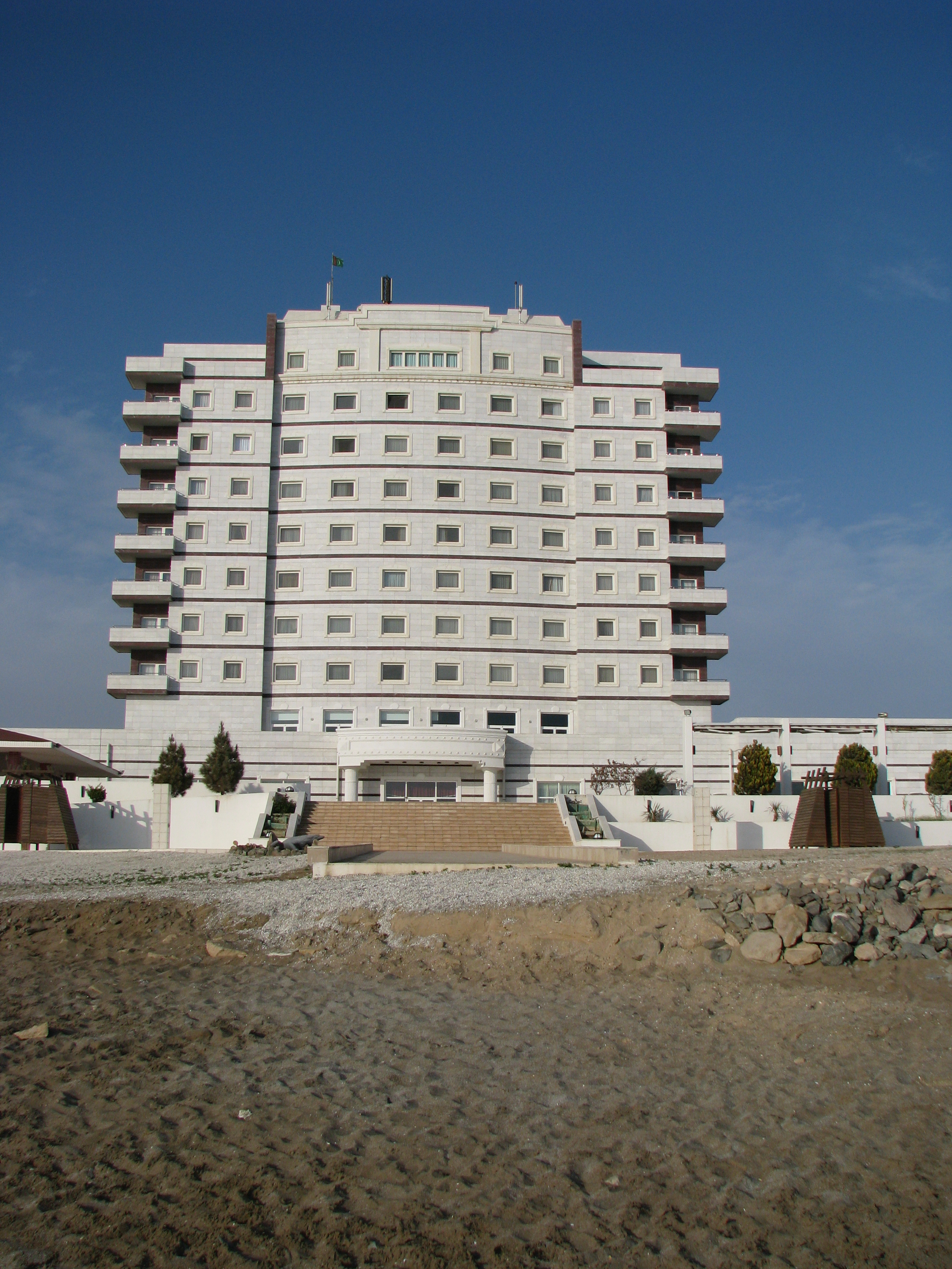 Hotel "Serdar" in Türkmenbaşy, Turkmenistan, the first hotel build in the "Avaza" turist zone.